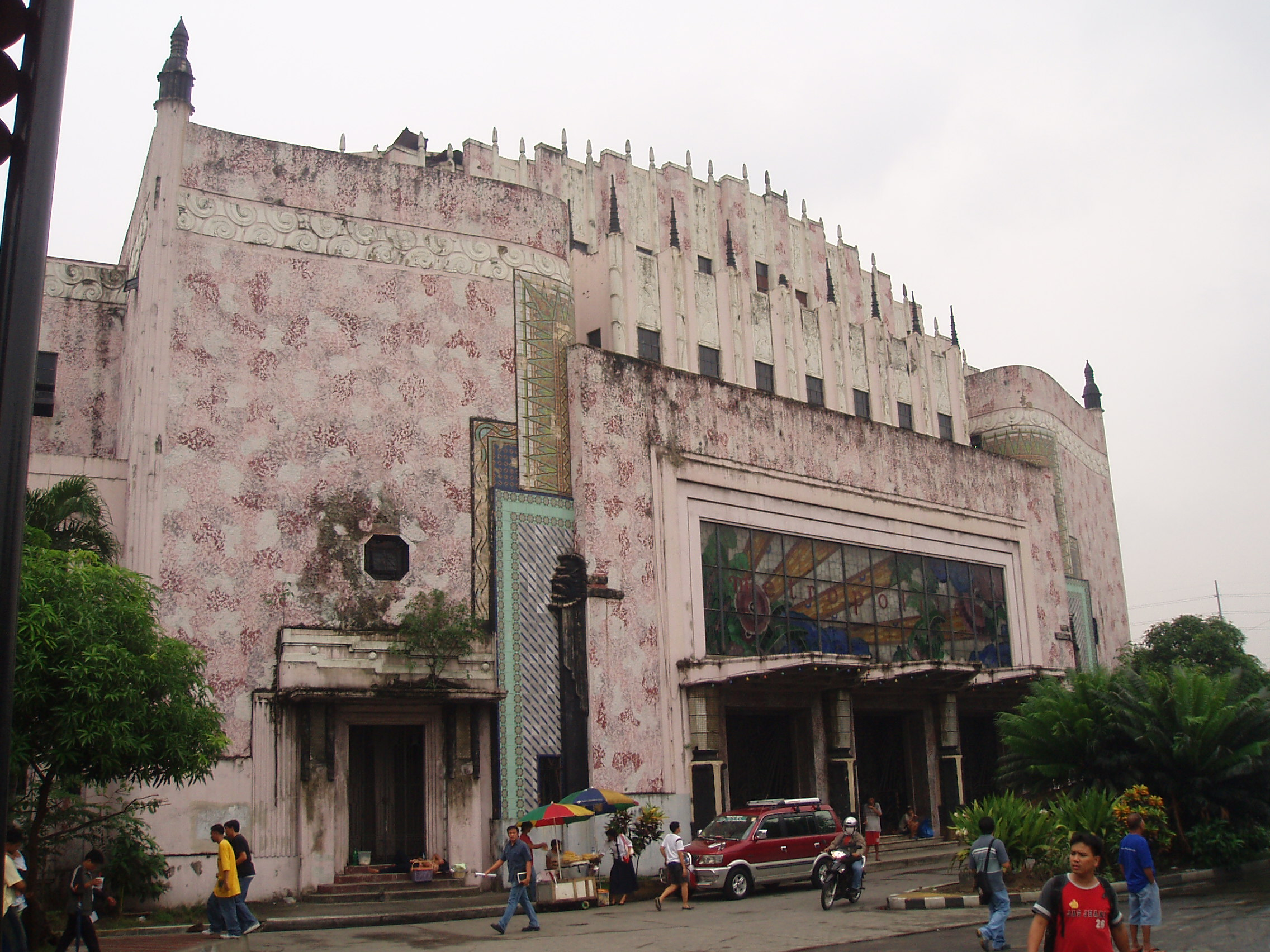 Exterior view of the Manila Metropolitan Theater, art deco facade designed by the Filipino architect Juan Marcos Arellano (1888—1960).